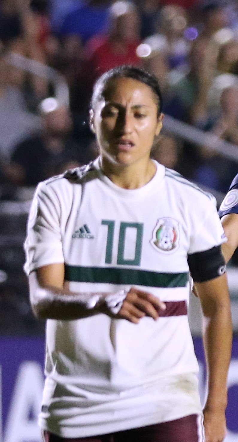 Stephany Mayor playing for Mexico against the United States at the 2018 CONCACAF Women's Championship on October 4, 2018.